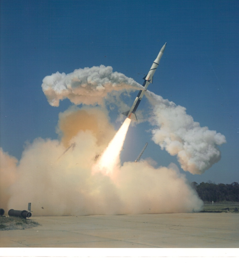 RAM-B sounding rocket (similar to Blue Scout Junior)